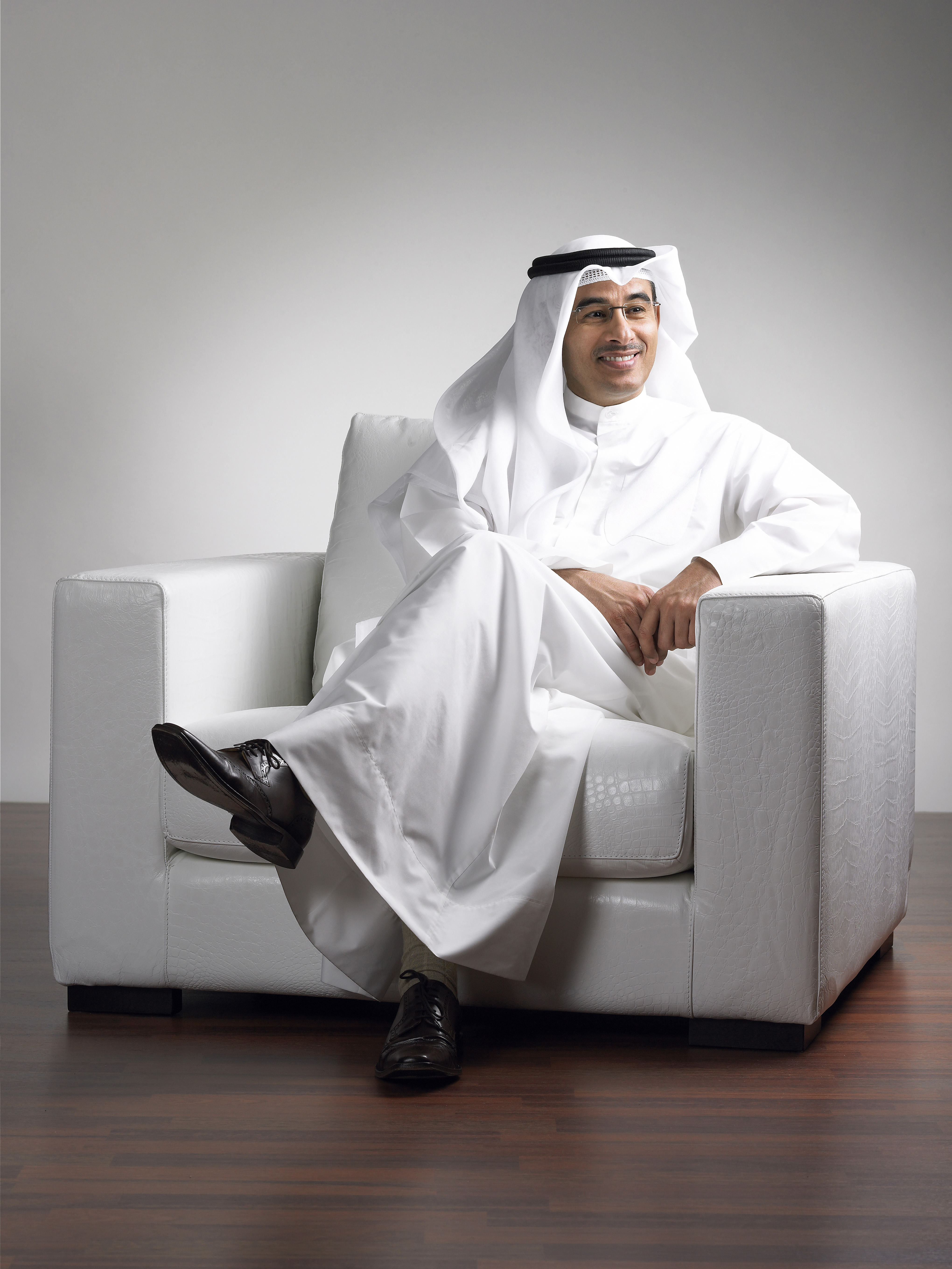 Chairman of Emaar Properties